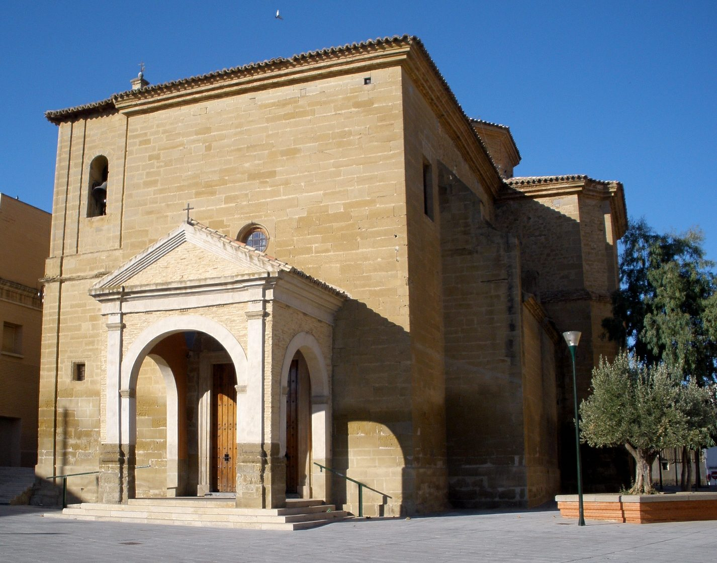 Iglesia de Nuestra Señora de la Oliva, en Ejea de los Caballeros (Zaragoza)